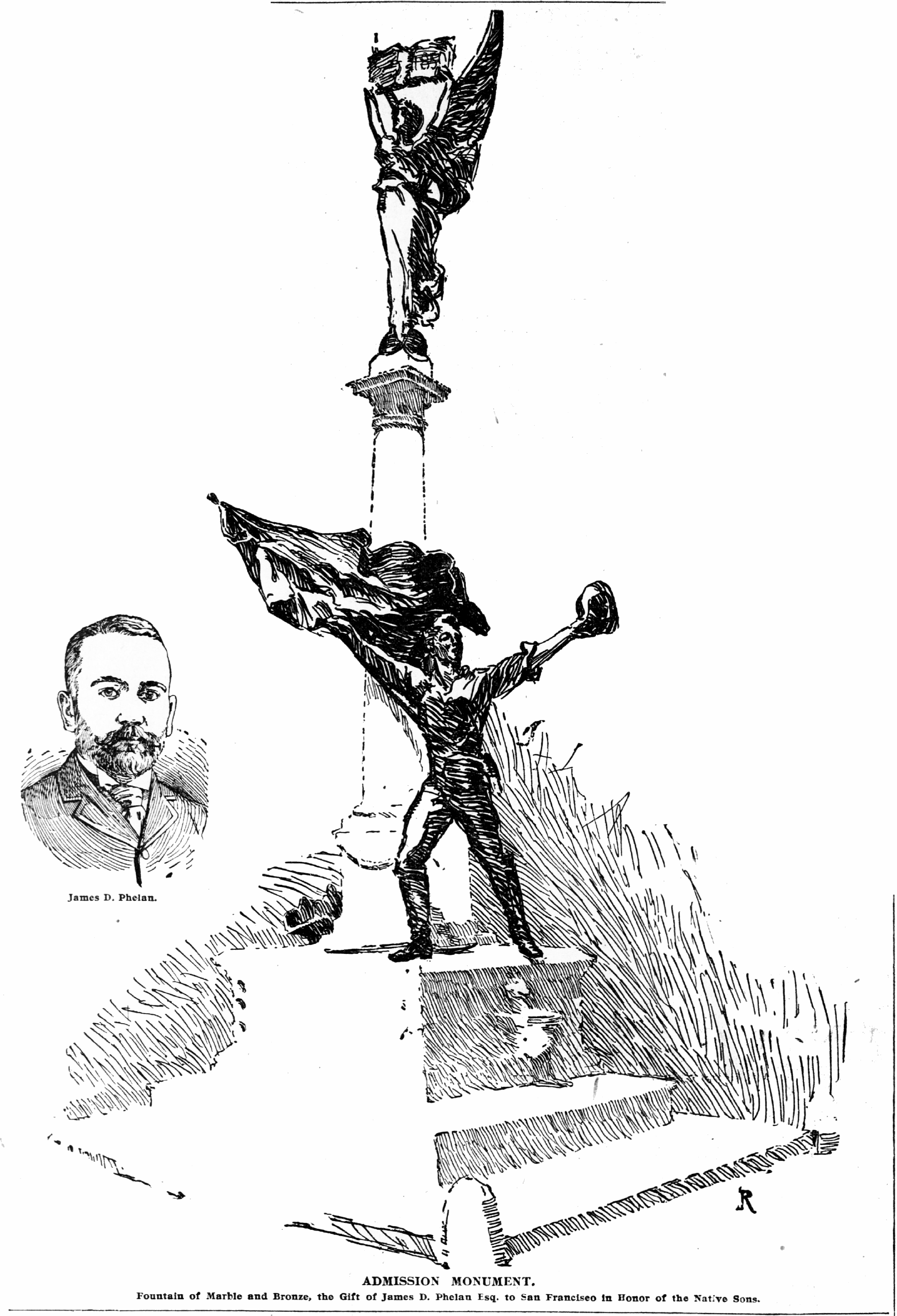 Sketch of the Admission Day Monument concept, from the article Phelan Makes a Princely Gift, published in 1896 by the San Francisco Call. Includes illustrated portrait of Phelan as well.